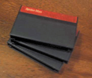 Photo of three cardbridge of the Sega Master System.